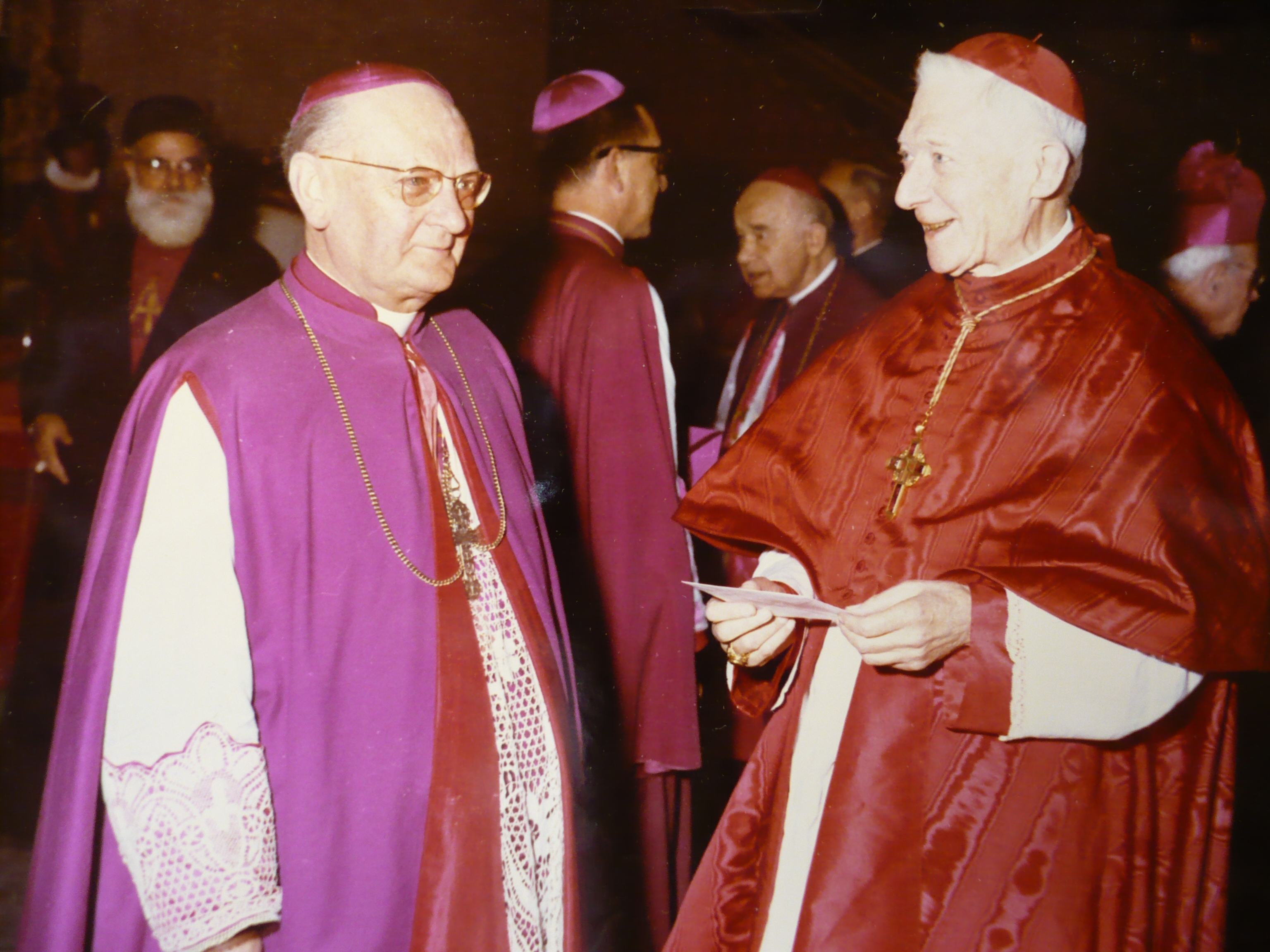 During Second Council of Vatican, archbishop Marcel-Marie Dubois talking with cardinal Achille Liénart.